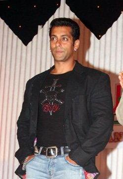 Indian actor Salman Khan